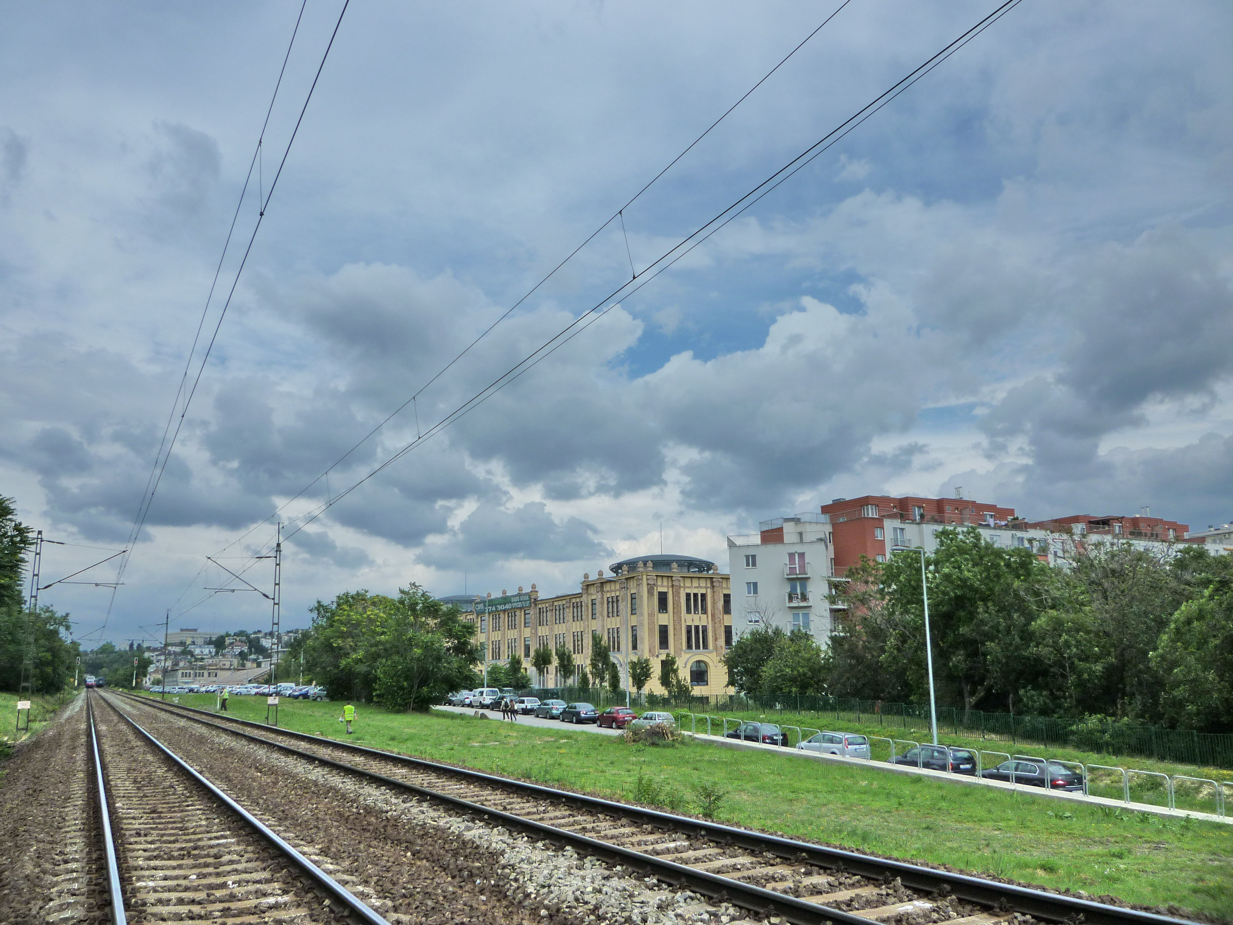 Rail tracks between Budapest Déli pályaudvar and Kelenföld állomás.